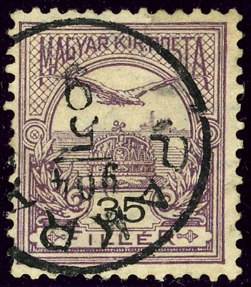 Kingdom of Hungary 35 fillér purple, issue 1901 stamp, cancelled PAKRAC, Croatia-Slavonia. SG 115, Mi 64A.